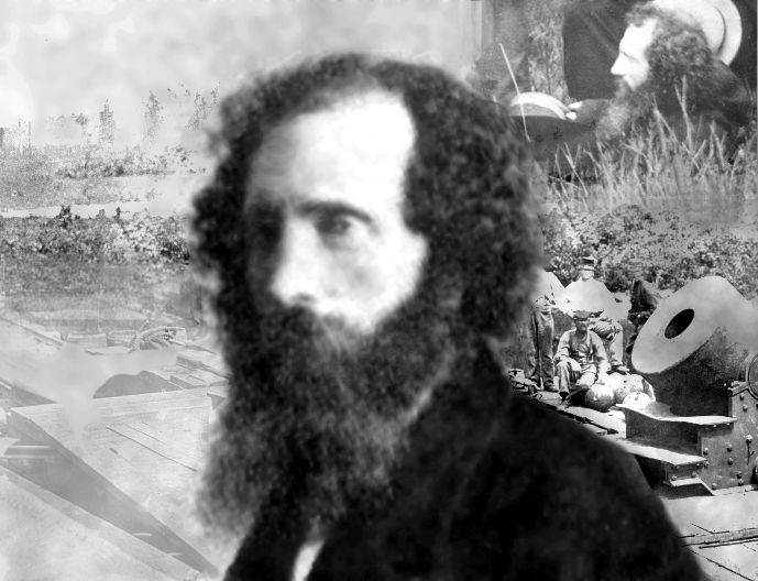 David Knox, cropped, derivative from original albumen group portrait